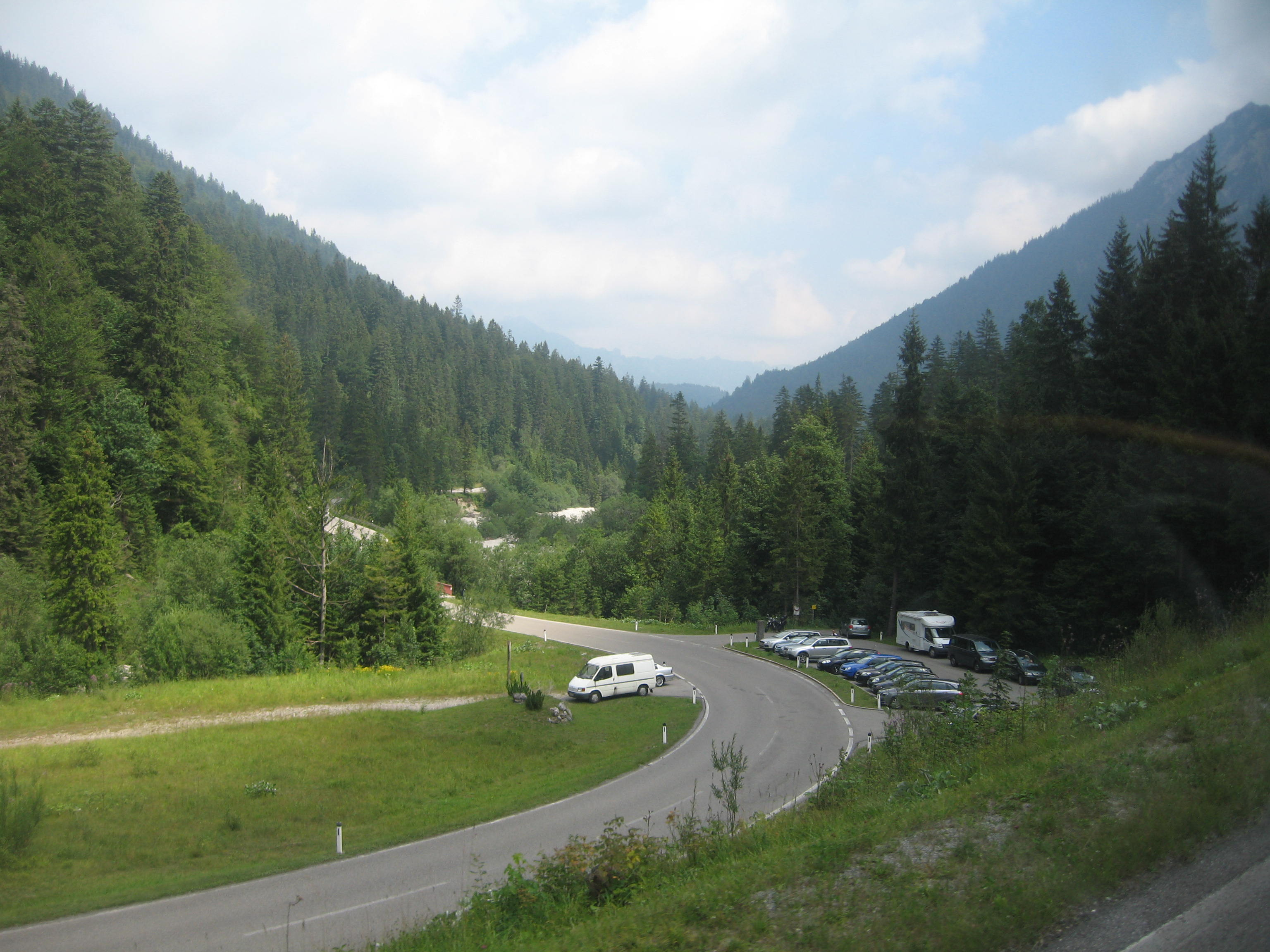 Ammersattel Pass in Ammergauer Alpen